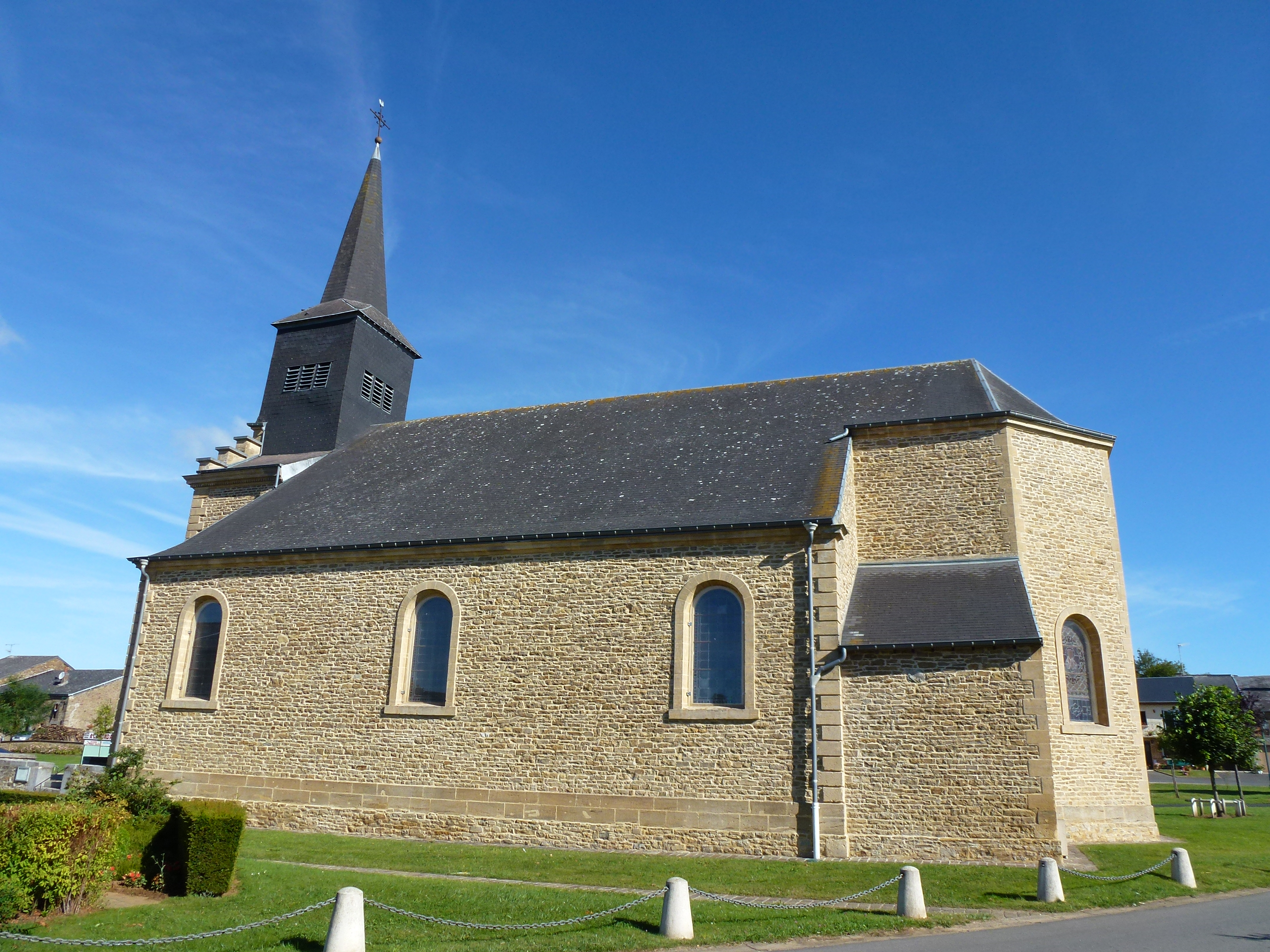 Harcy (Ardennes) église